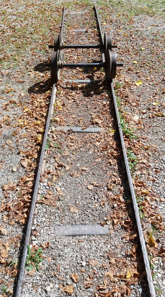 Remains of the narrow-gauge field railway used for the construction of the New Castle Herrenchiemsee